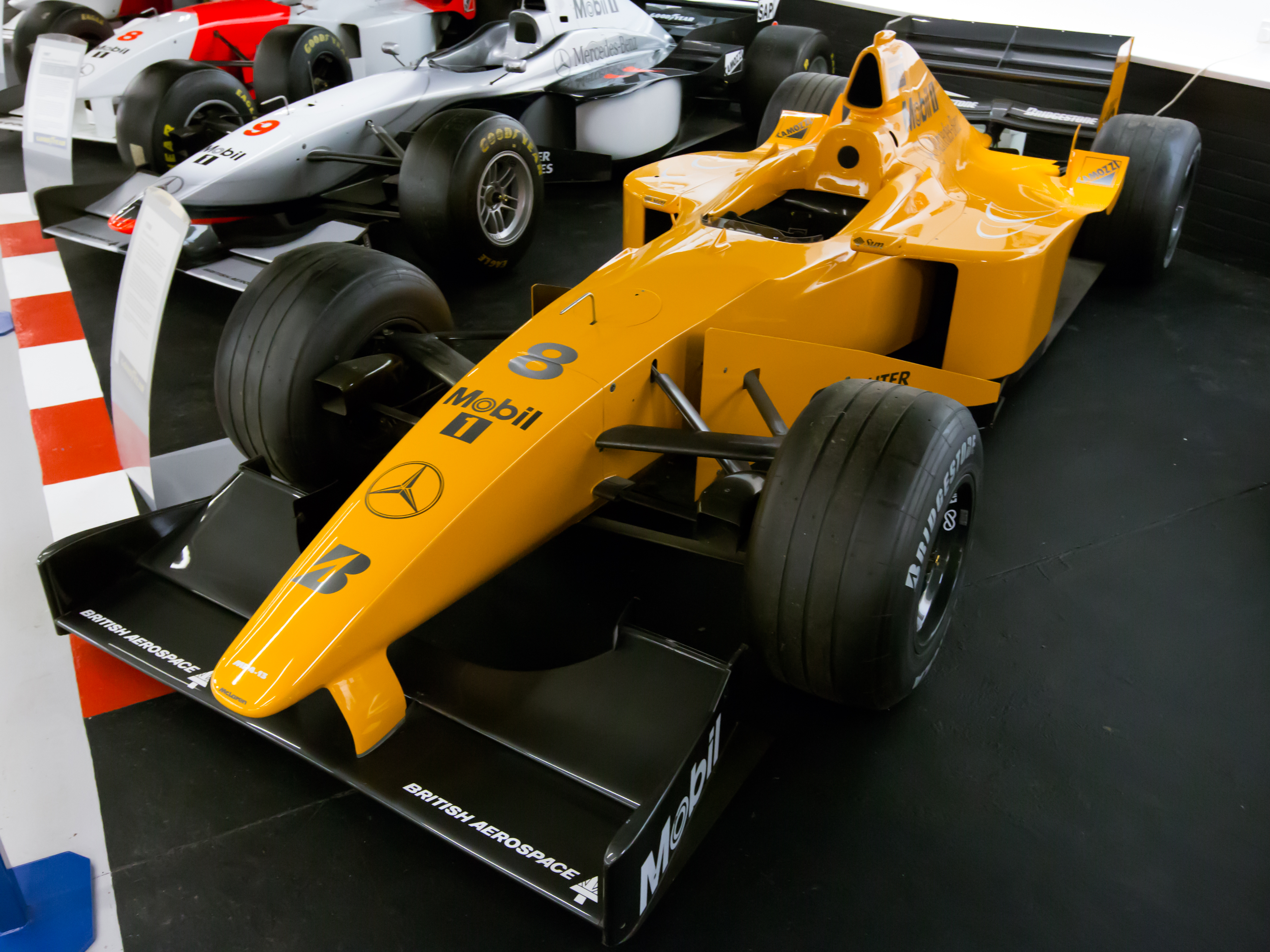 1998 McLaren MP4/13A pre-season test car